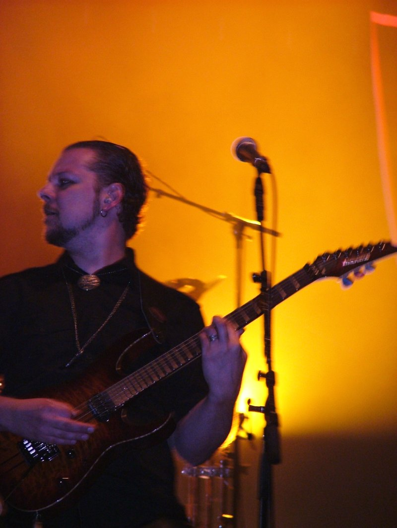 Ihsahn live at the hellfest